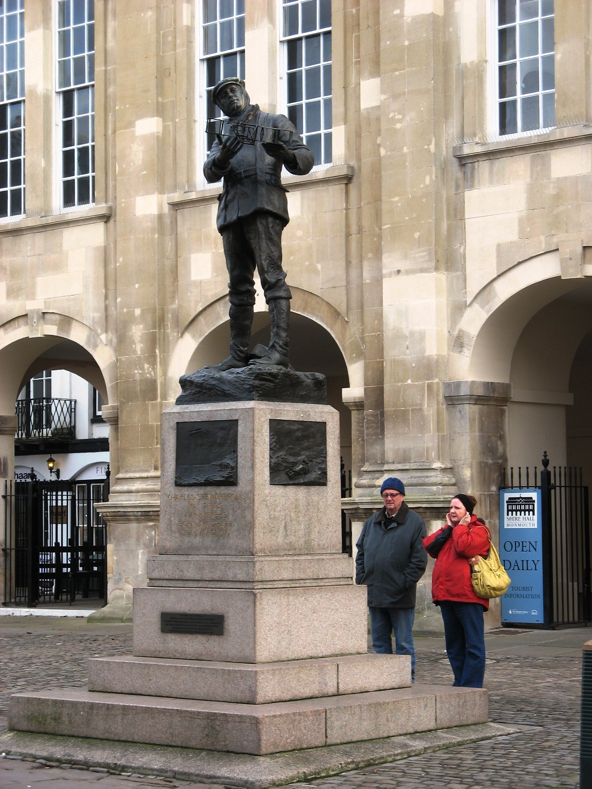 Pictures of Rolls Statue Monmouth